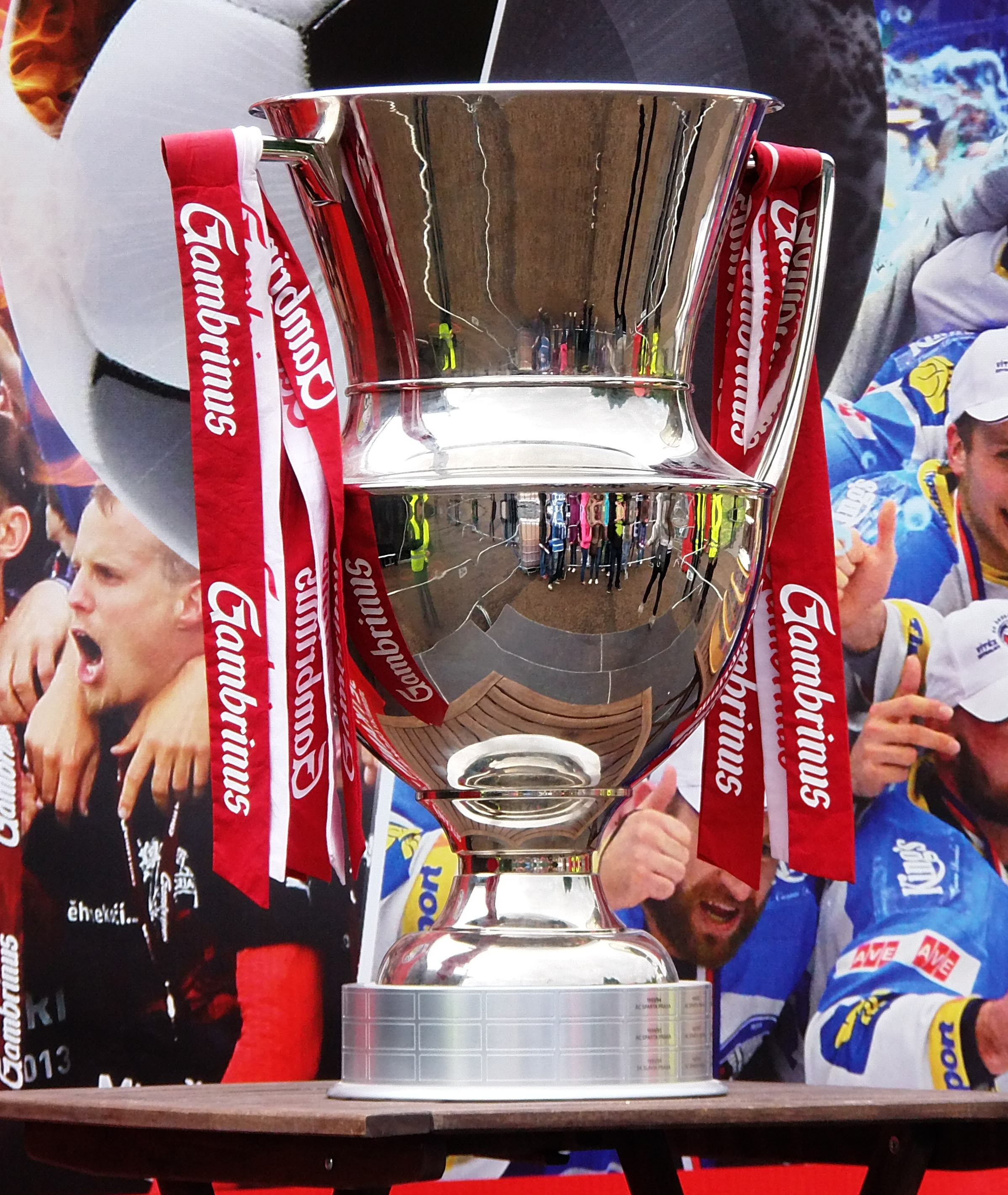 Trophy of Gambrinus liga, Pilsen, 2013-06-26 ((Pohár vítěze Gambrinus ligy 01.JPG, cropped)